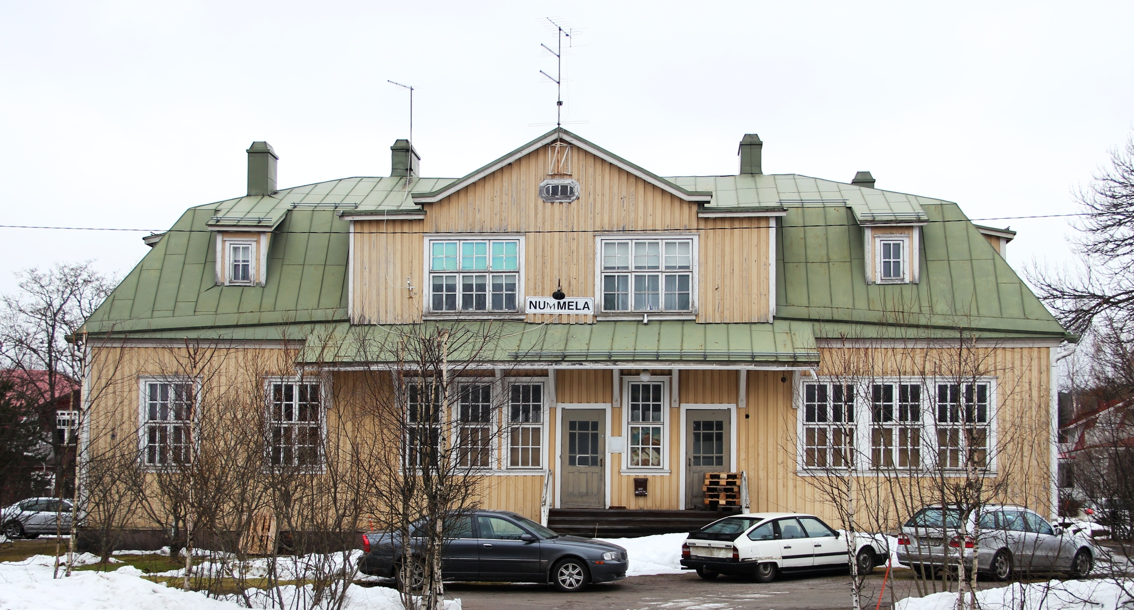 Nummela old railway station, in Nummela, Vihti, Finland